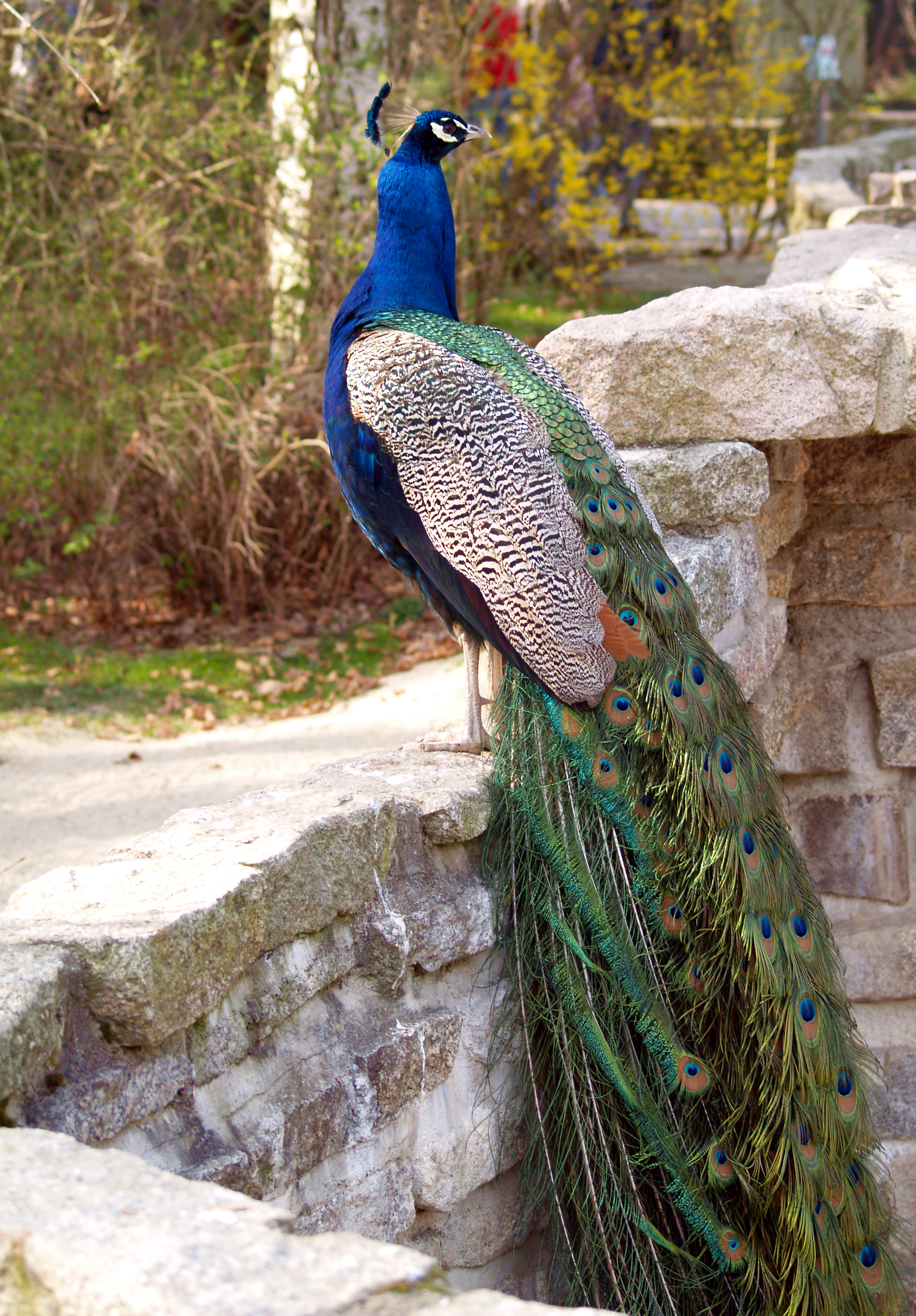 Blue Peafowl (Pavo cristatus)